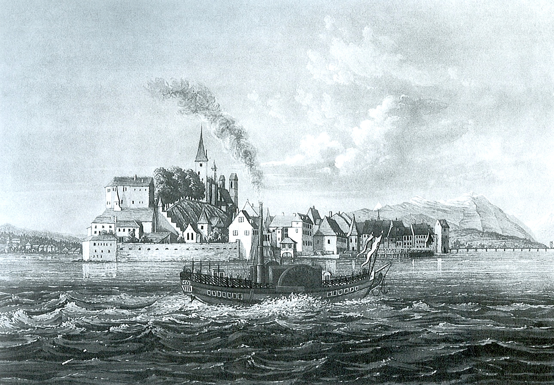 Rapperswil (SG) : Steamship Minerva on Lake Zürich on July 19, 1835.